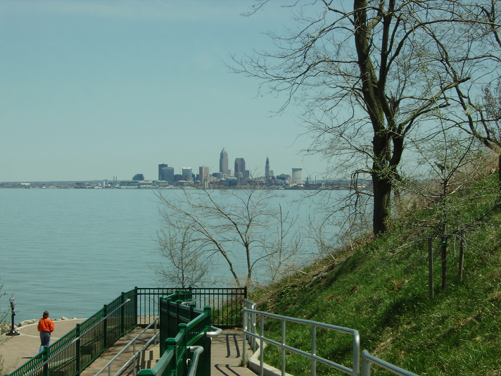 The Cleveland skyline from Lakewood Park, showing from left, Key Tower, BP Building, Terminal Tower (obscured by scaffolding.) Taken by me, 30 April 14:30 EDT, Using Vivitar 6300.